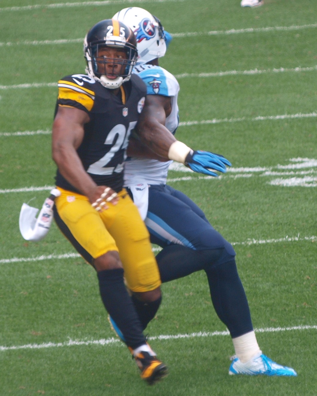 Pittsburgh Steelers safety, Ryan Clark, covering Tennessee Titans tight end, Delanie Walker.